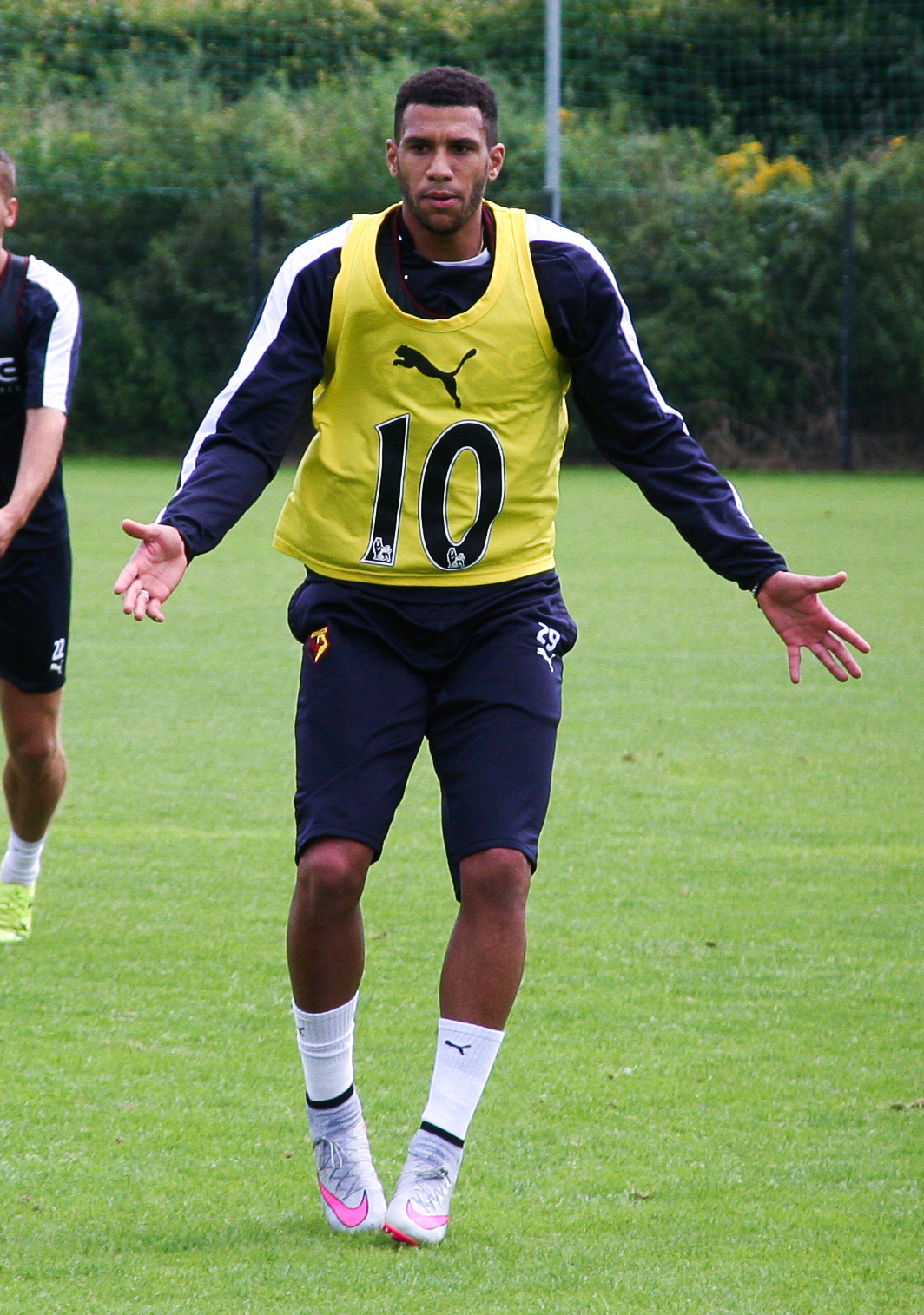 Etienne Capoue training with Watford FC during 2014/15 pre-season.